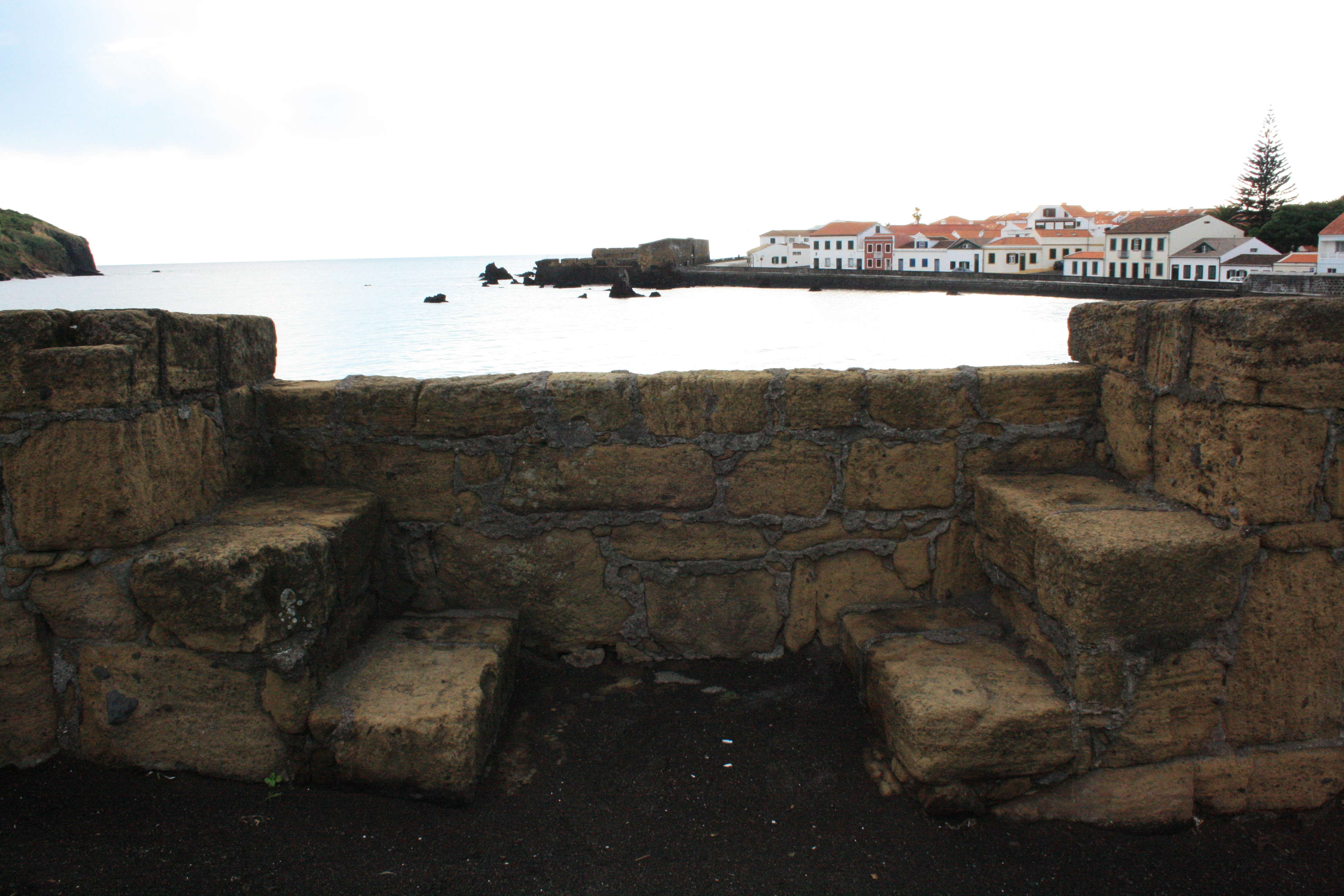 This building is classified as Imóvel de Interesse Público. This file was uploaded for Wiki Loves Monuments in Portugal with the unique identifier 98020012.